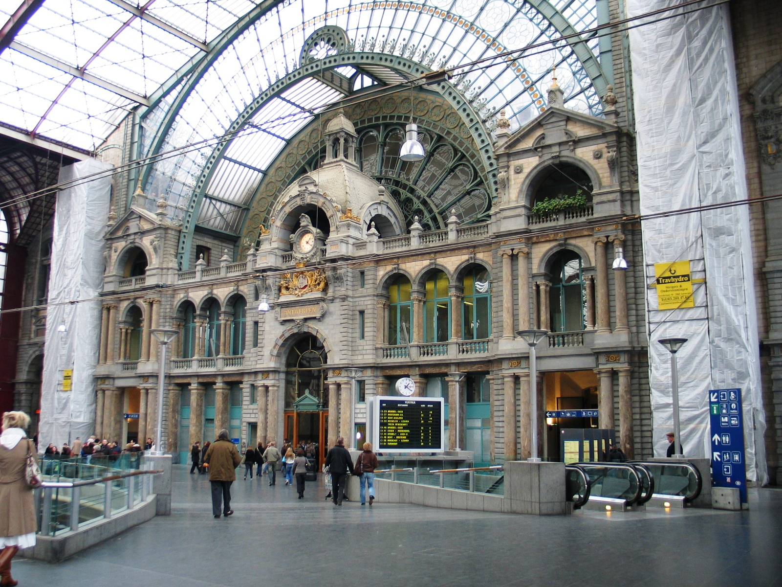 Central station Antwerp - my own work Paul Hermans